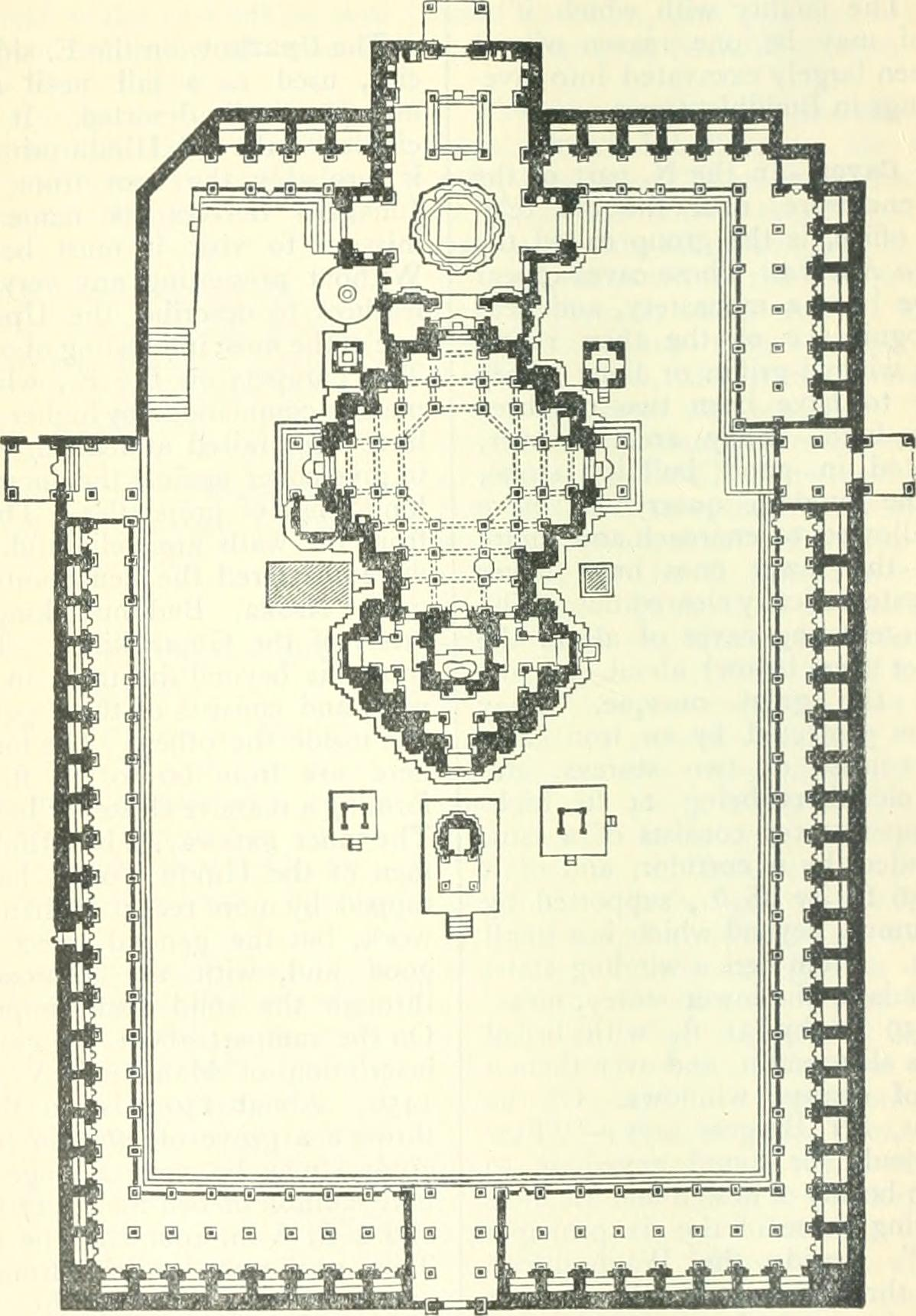 Identifier: handbooktravelle00john Title: A handbook for travellers in India, Burma, and Ceylon . Year: 1911 (1910s) Authors: John Murray (Firm) Subjects: India -- Guidebooks Burma -- Guidebooks Sri Lanka -- Guidebooks Publisher: London : J. Murray Calcutta : Thacker, Spink, & Co. Text Appearing Before Image: e gate is aninscription of Mandalika V., dated1450. About 150 yds. to the left,through a grove of siiaphal (custardapples) may be seen a huge lo-in.bore cannon of bell-metal, 17 ft. longand 4 ft. 8 in. round at the mouth.This gun was brought from Diu,where it was left by the Turks.There is an Arabic inscription at themuzzle, which may be translated:The order to make this cannon, tobe used in the service of the Almighty,was given by the Sultan of Arabiaand Persia, Sultan Sulaiman, son ofSalim Khan. May his triumph beglorified, to punish the enemies of theState and of the Faith, in the capital 154 ROUTE II. FROM AHMEDABAD THROUGH KATHIAWAR India of Egypt, 1531. At the breech isinscribed: The work of Muham-man, the son of Hamzah. Anotherlarge cannon called Chudanal, alsofrom Diu, in the southern portion ofthe fort, is 13 ft. long, and has a terraced roof is by a good staircaseoutside. The Tomb of Nuri Shah, close to the mosque, is ornamented with flutedcupolas, and a most peculiar carving Text Appearing After Image: Temple of Nemnath, Girnar. muzrle 4 ft. in diameter. Near this isthe Jajna Masjid, evidently con-structed from the materials of aHindu temple built by MahmudBigara. One plain slim minaretremains standing, but the mosque ismuch ruined. The ascent to the over the door. There are two Wellsin the Uparkot—the Adi Ckadi, saidto have been built in ancient times bythe slave girls of the Chudasamarulers, is descended by a long flightof steps (the sides of the descentshow the most remarkable overlap- GIRNAR.